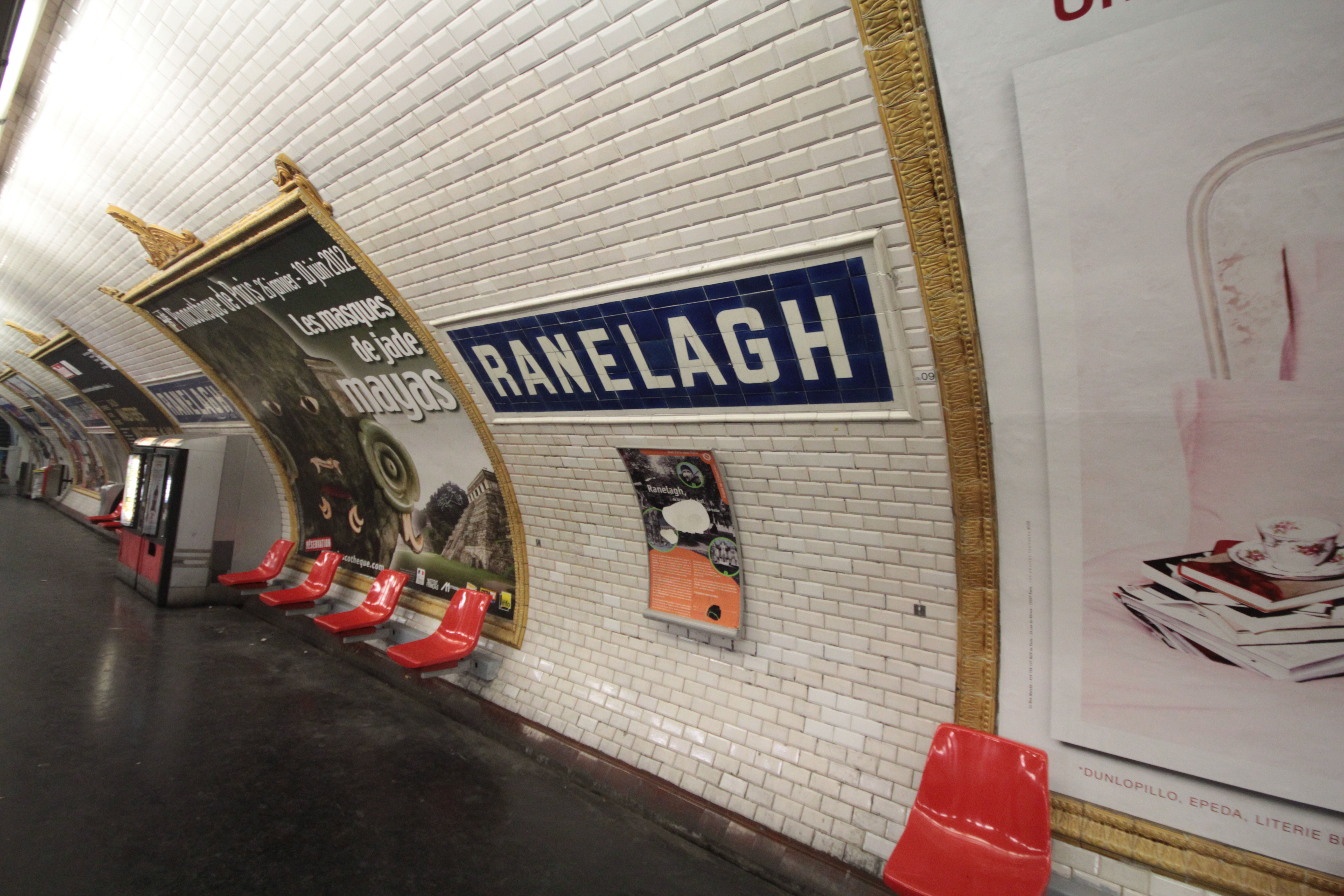 Station Ranelagh on Parisian metro line 9